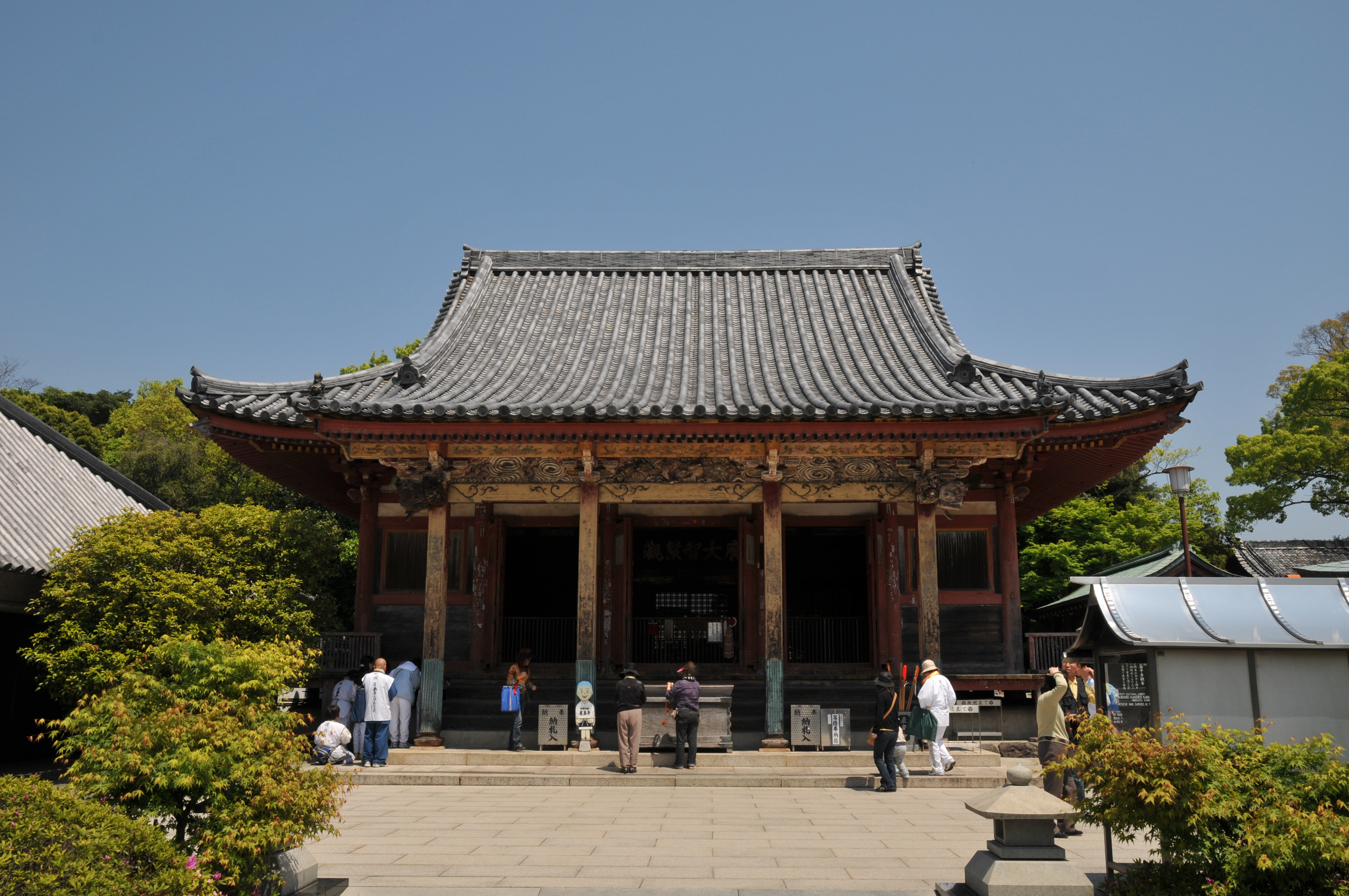 Main Hall of Yashima-ji temple(Japan's national important cultural property), Kagawa pref., Japan